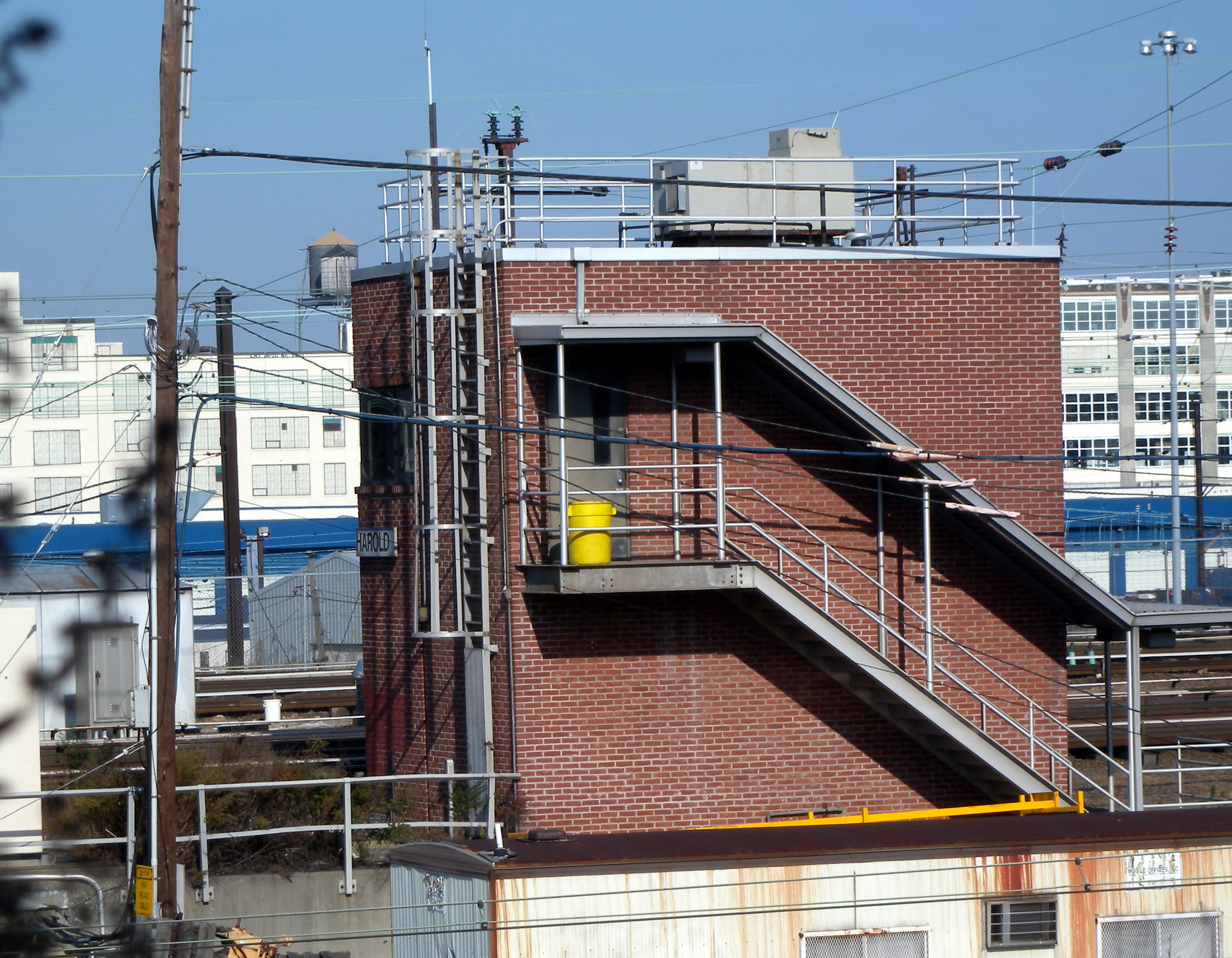 Looking north from Skillman Avenue at Harold Tower on a sunny midday.